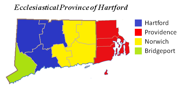 The Ecclesiastical Province of Hartford encompasses the states of Connecticut and Rhode Island, USA.